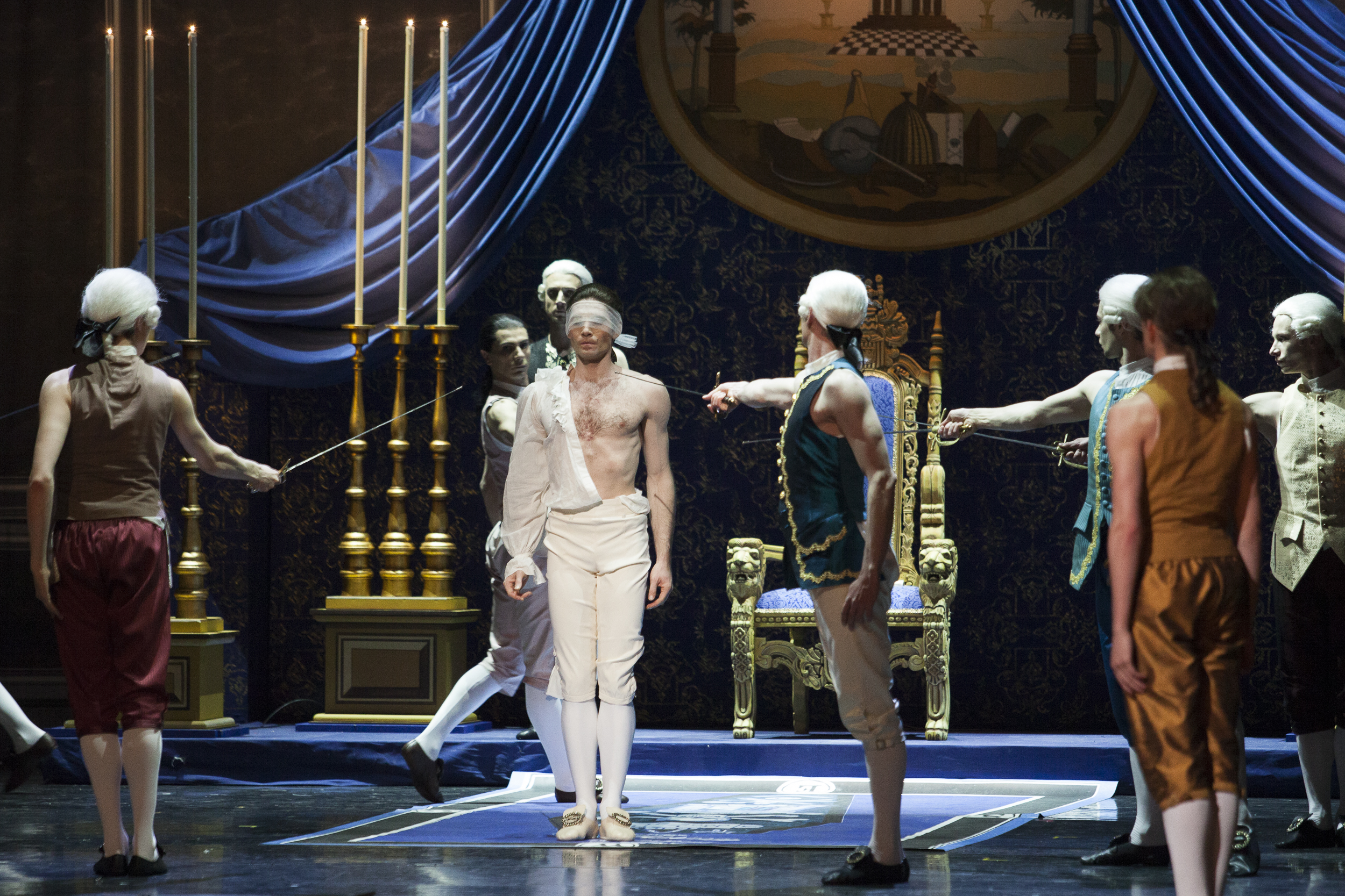 "Casanova in Warsaw" ballet by Krzysztof Pastor, Polish National Ballet, dancer: Vladimir Yaroshenko as Giacomo Casanova, set and costume design by Gianni Quaranta